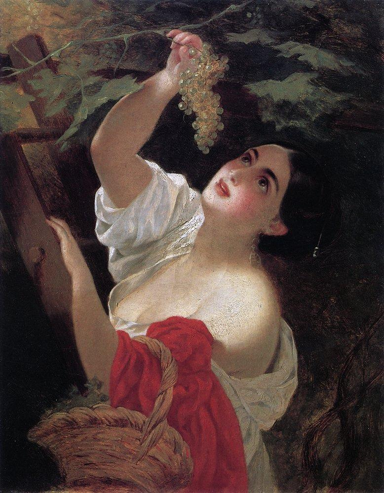 Italian Midday, 1831